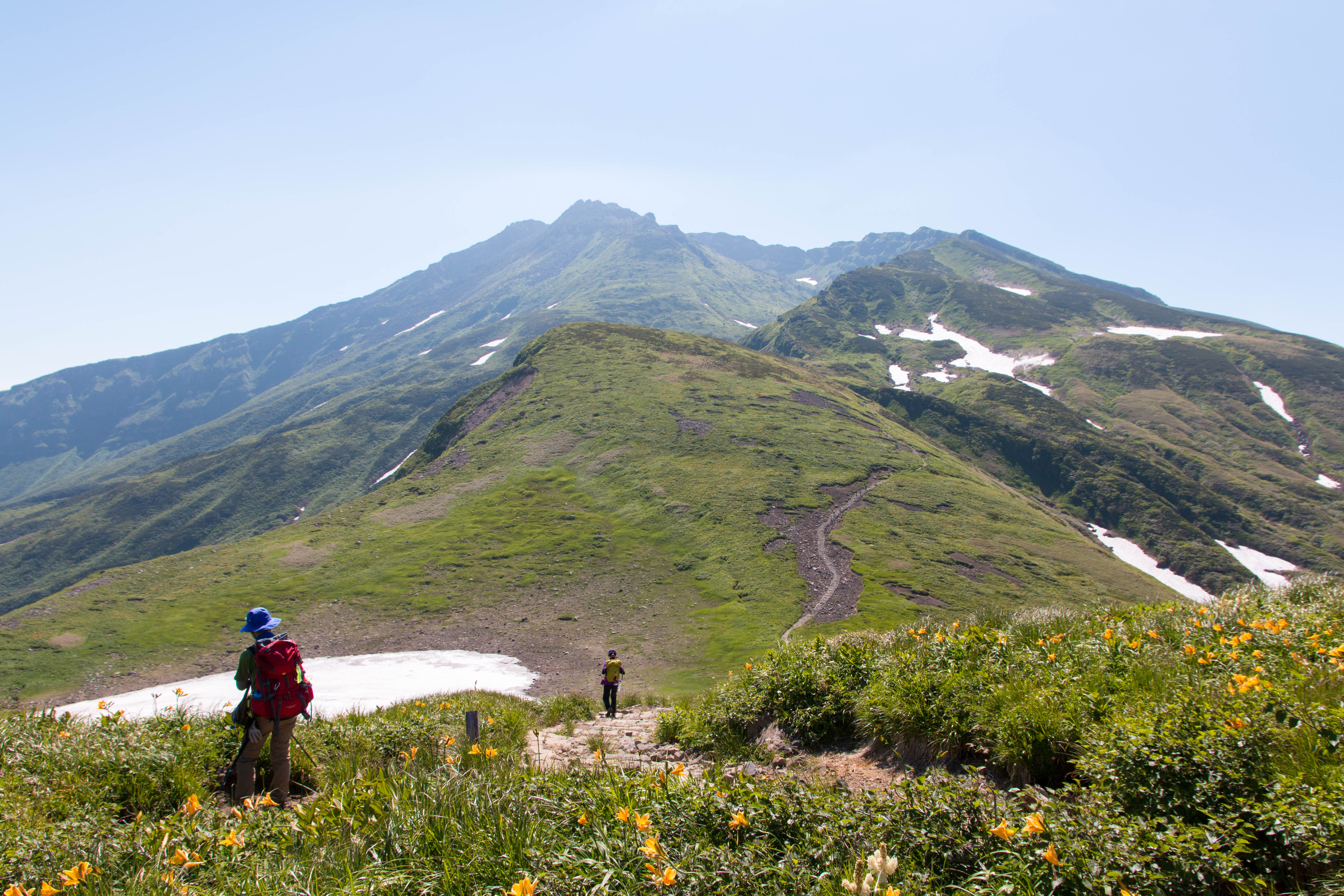 Mount Chokai's summit seen from the West.